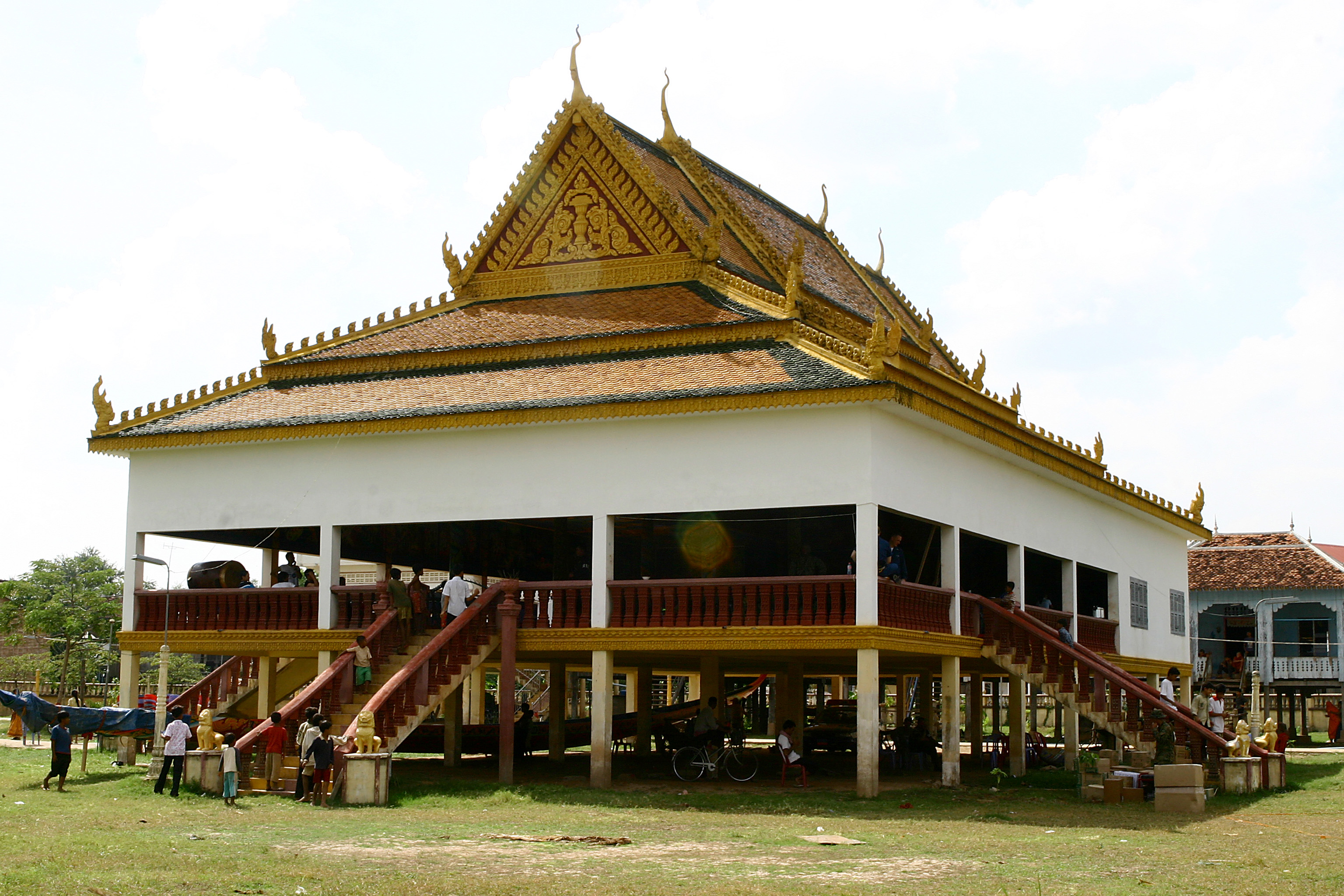 A Buddhist temple in the village of Stung Trung in November 26th, 2007.